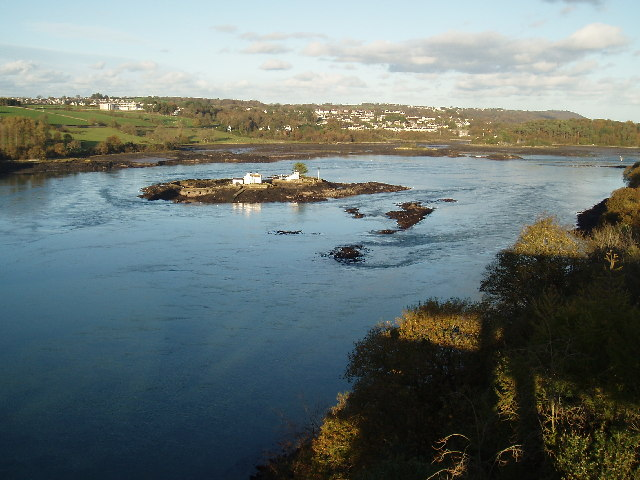 Cottage on Gored Goch. The Swellies(Menai Straits) From Britannia Bridge